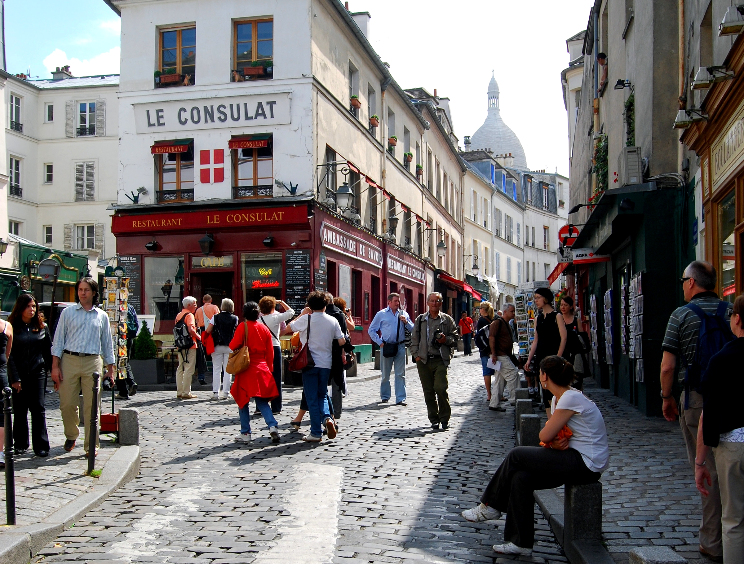 A street of Montmartre. Rue Norvins.